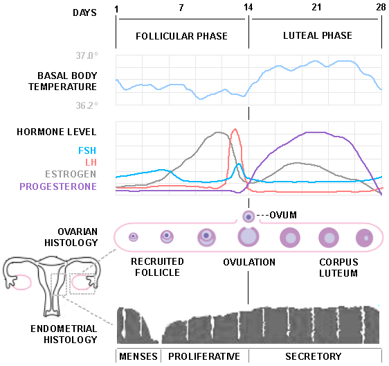 Diagram of the menstrual cycle (based on several different sources)